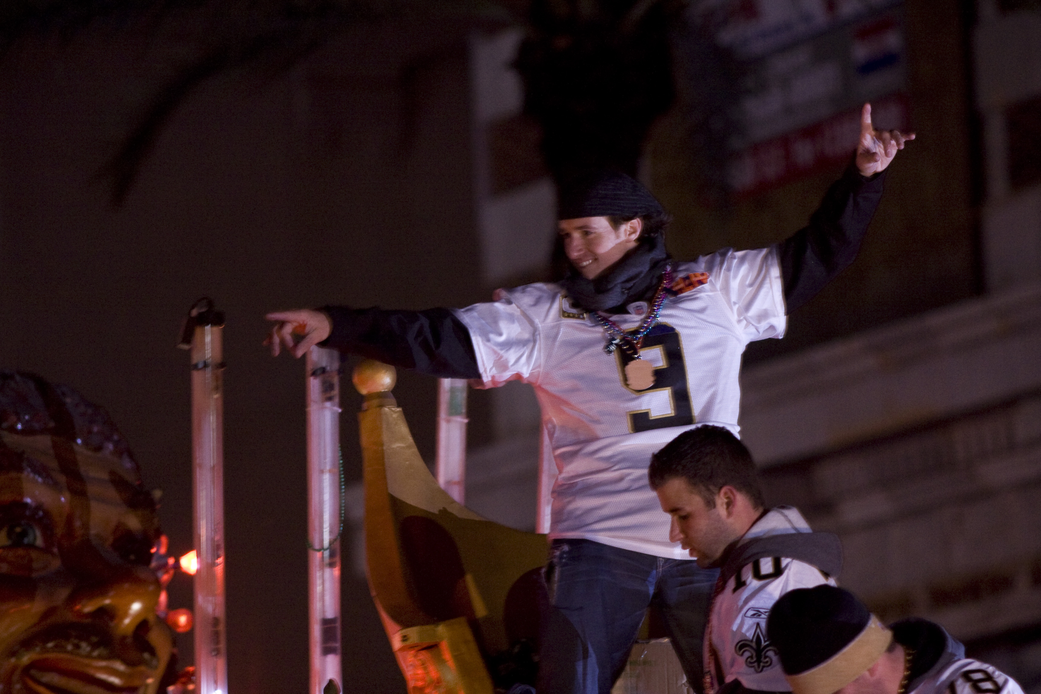 New Orleans Saints Super Bowl Victory Parade on Canal Street. Quarterback Drew Brees